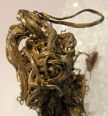 Silver Locality: Chañarcillo, Copiapó Province, Atacama Region, Chile (Locality at ) Size: thumbnail, 2.2 x 1.2 x 1 cm Silver RARE AND OLD LOCALITY...Delicate and beautifully woven Silver wires highlight this excellent locality thumbnail specimen. With such good luster and patina, the aesthetics of this piece are first-rate.